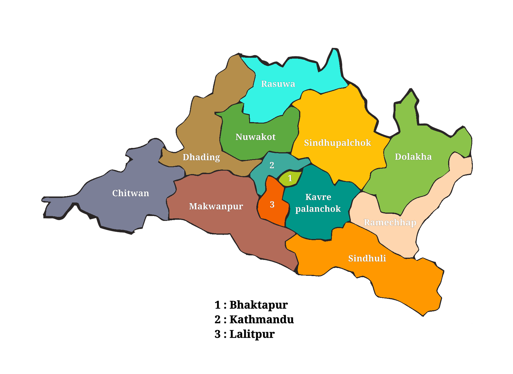 Province 3 of Nepal consisting 13 districts